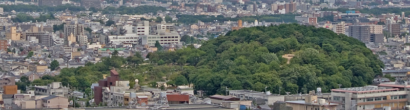 Mt. Funaoka (Funaokayama) seen from northwest. Mt. Funaoka in Kita-ku, Kyoto, Japan.